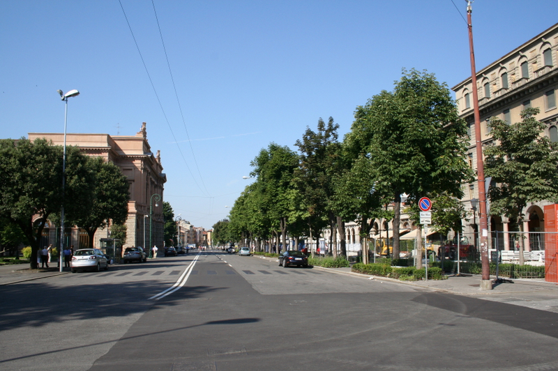 Bergamo - Lombardy - Italy. Promenade called Sentierone (big path).